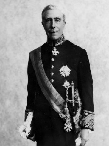 Formal portrait of Sir Charles Bathurst Bledisloe in uniform.